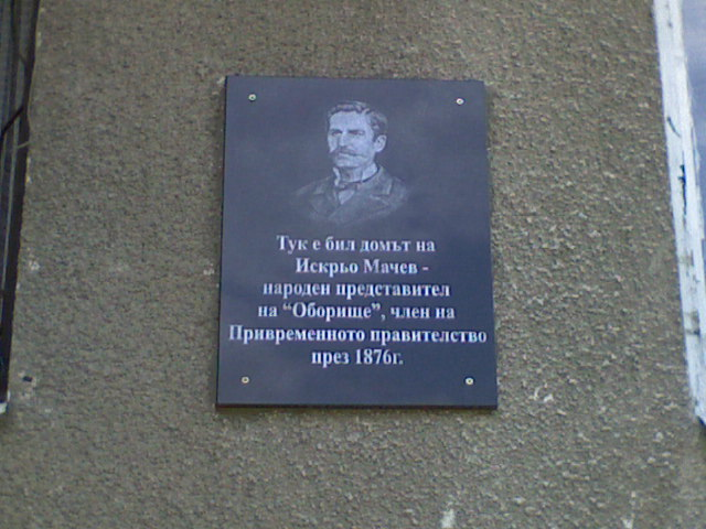 Plaque in memory Iskrio Machev, revolutionary leader of the "April Uprising" in Panaguirishte, Bulgaria.